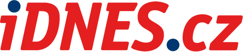 Logo of iDNES.cz